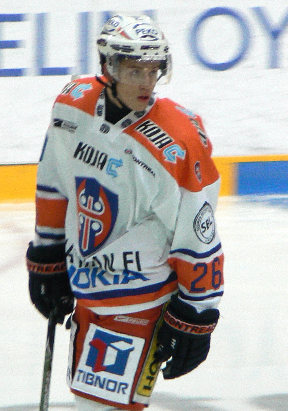 Finnish ice hockey winger Jonas Enlund playing for Tappara Tampere in September, 2008.